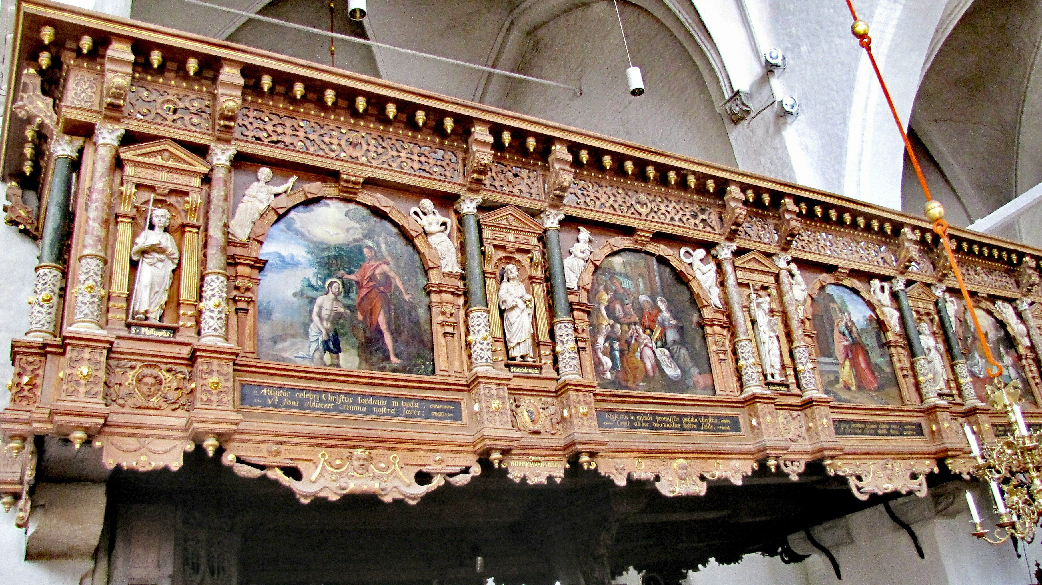 East view of the Singechor (choir podium) in St. Aegidien, sculpture by Tönnies Evers der Jüngere, 1587